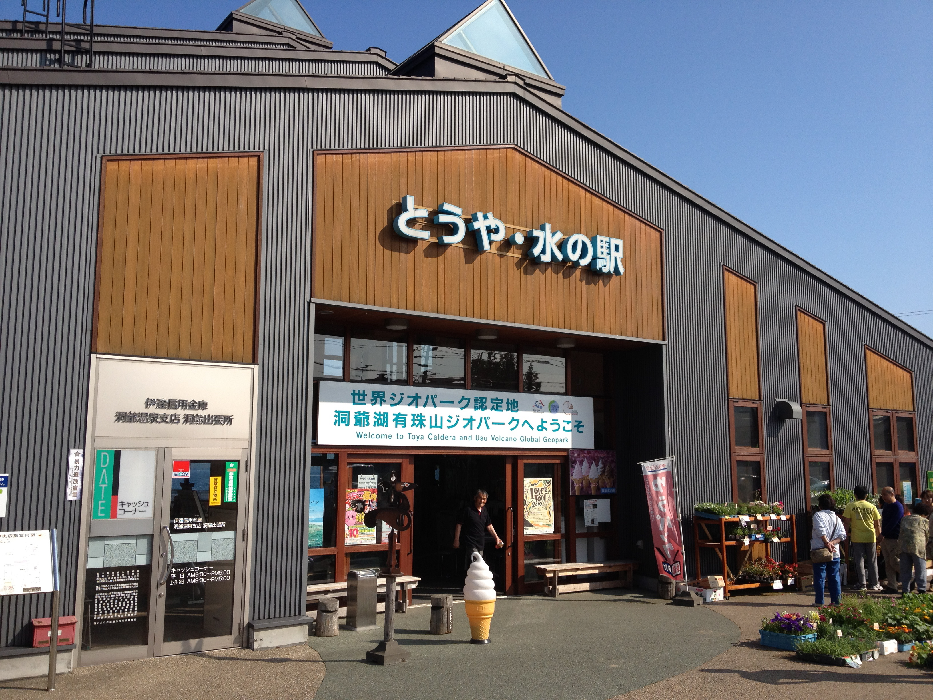 picture of Mizunoeki in Toyako Town, Hokkaido, Japan